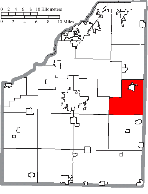 Map of the municipal and township boundaries of Wood County, Ohio, United States, as of the 2000 census, with the location of Freedom Township highlighted. Township borders are shown only in unincorporated areas in order to differentiate incorporated and unincorporated areas more clearly.